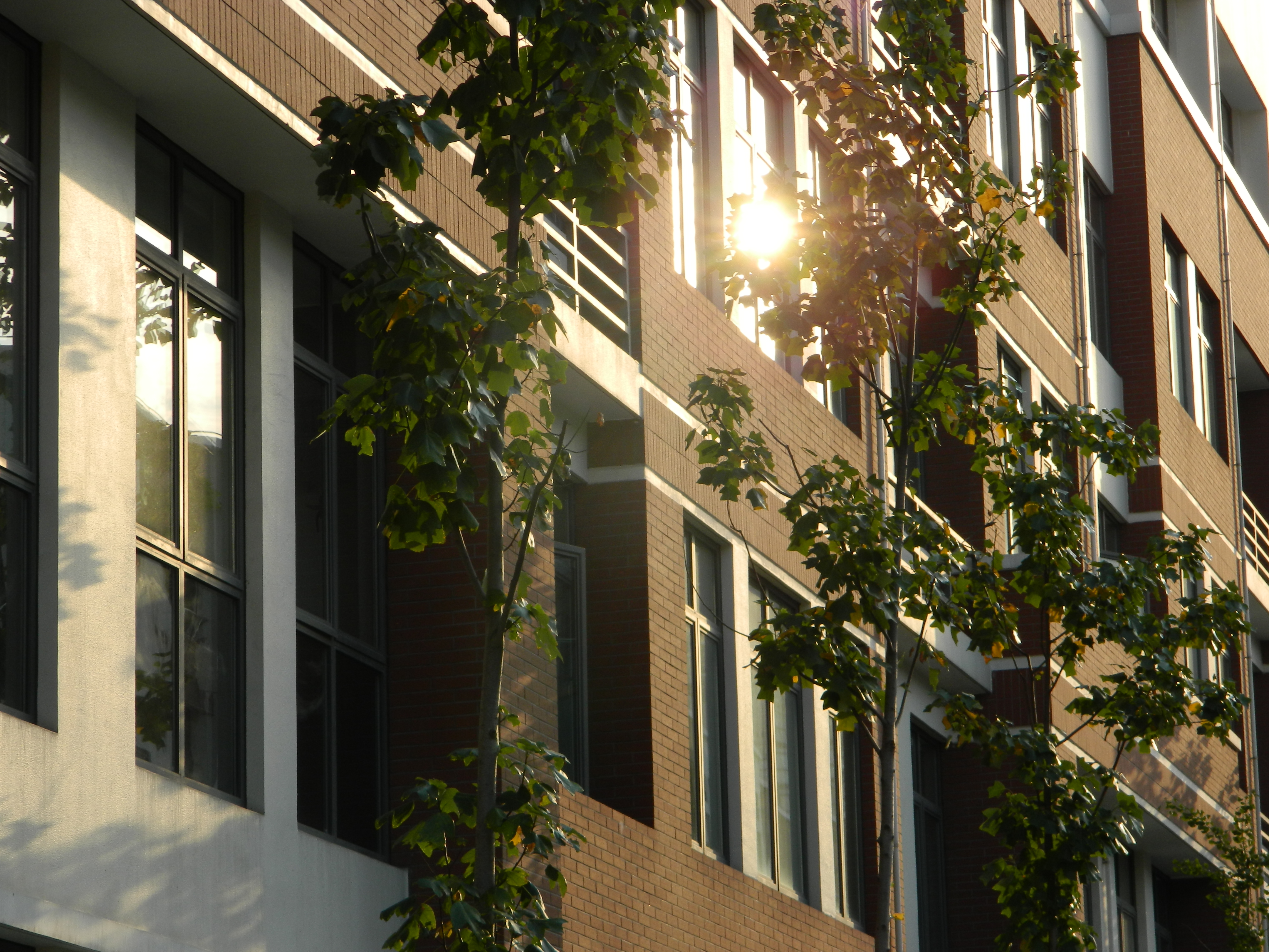 Jing Xin Building in an autumn afternoon, the main teaching building in school